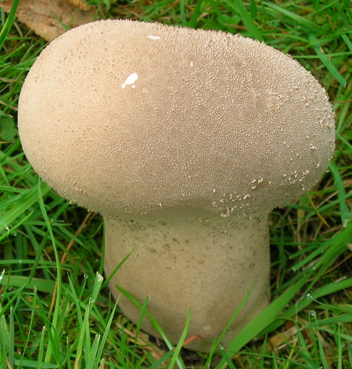 Handkea excipuliformis (Scop.) Kreisel, 1989 (Pestle Puffball), Kilbirnie Lochshore, North Ayrshire, Scotland.